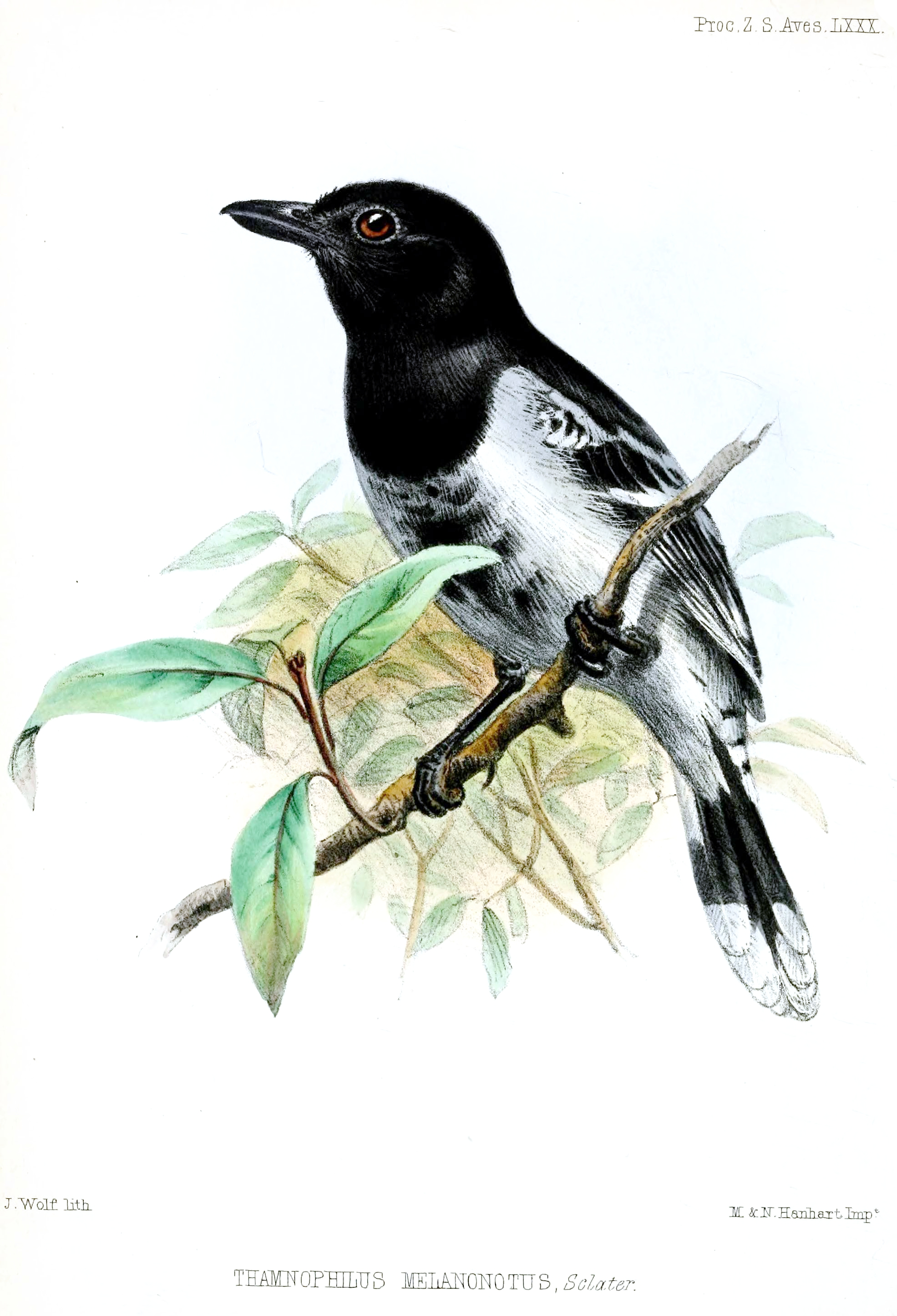 Black-backed Antshrike, male